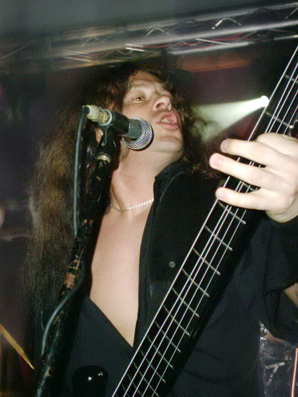 8.06.2004, Rzeszów, Rejs, Empire Invasion Tour 2004, Dies Irae band - Marcin "Novy" Nowak